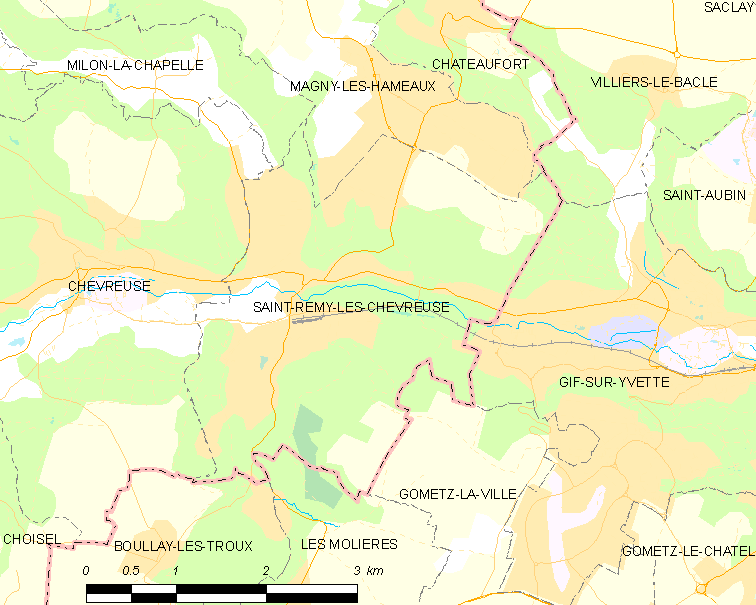 Map of French municipality Saint-Rémy-lès-Chevreuse